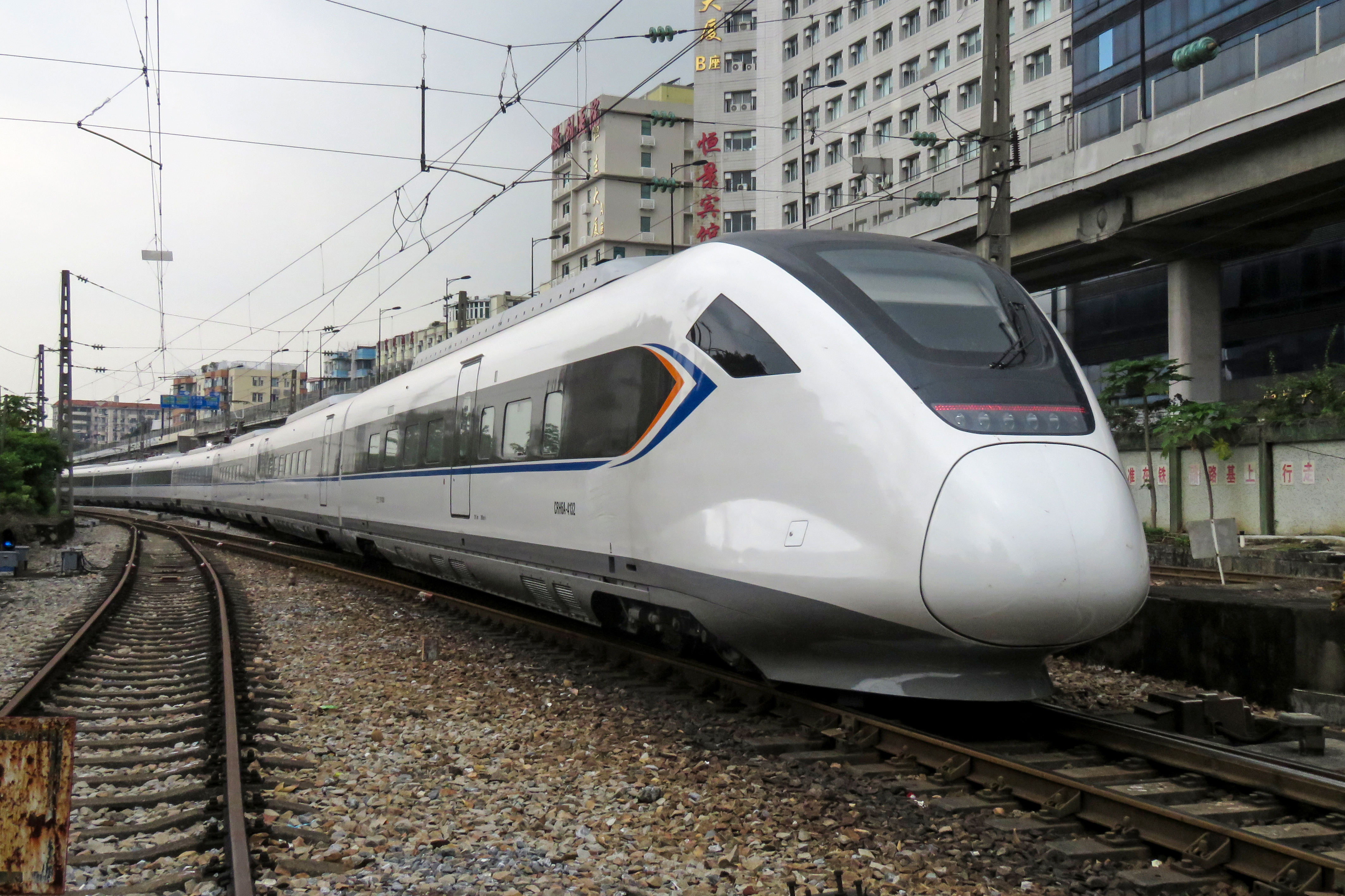 This CRH6A, possibly dedicated for GSRC, has more seats than any other CRH6. The interior design resembles CR400 series.